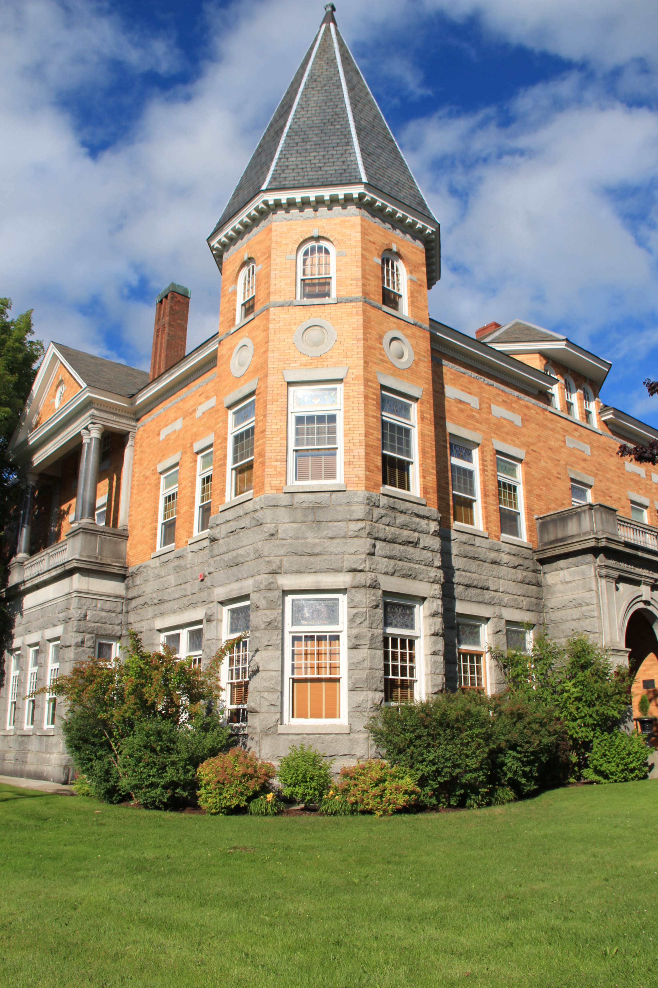 Haskell Free Library and Opera House. Photo taken in 2012